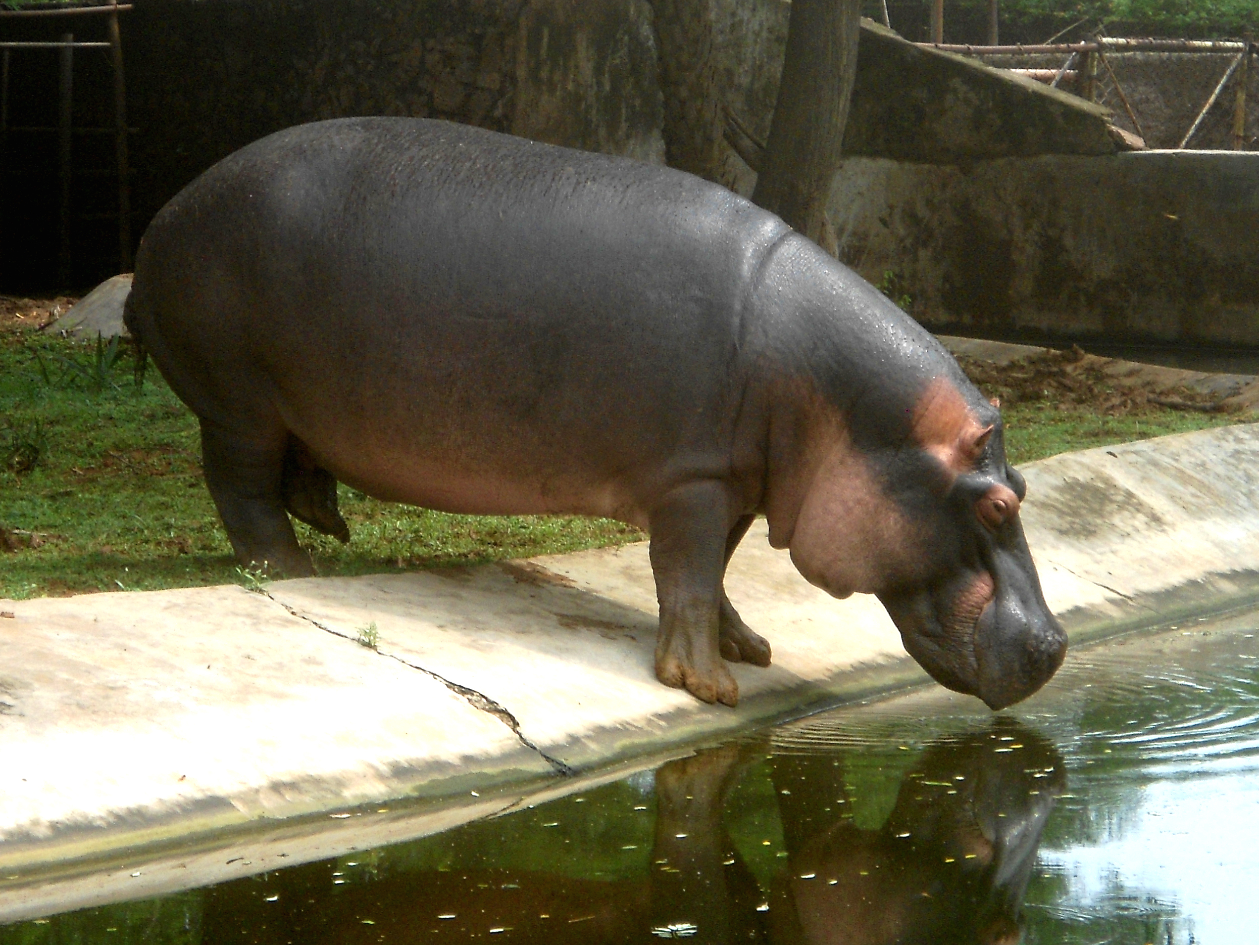 Hippopotamus at Indira Gandhi Zoo park in Visakhapatnam